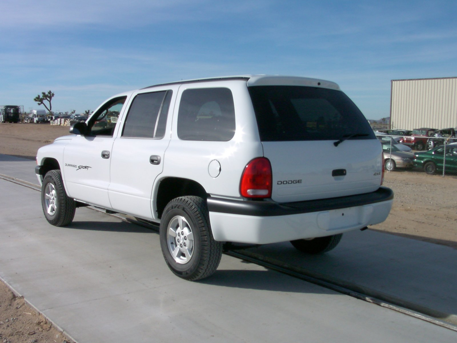 2001 Dodge Durango Sport, photographed in USA.